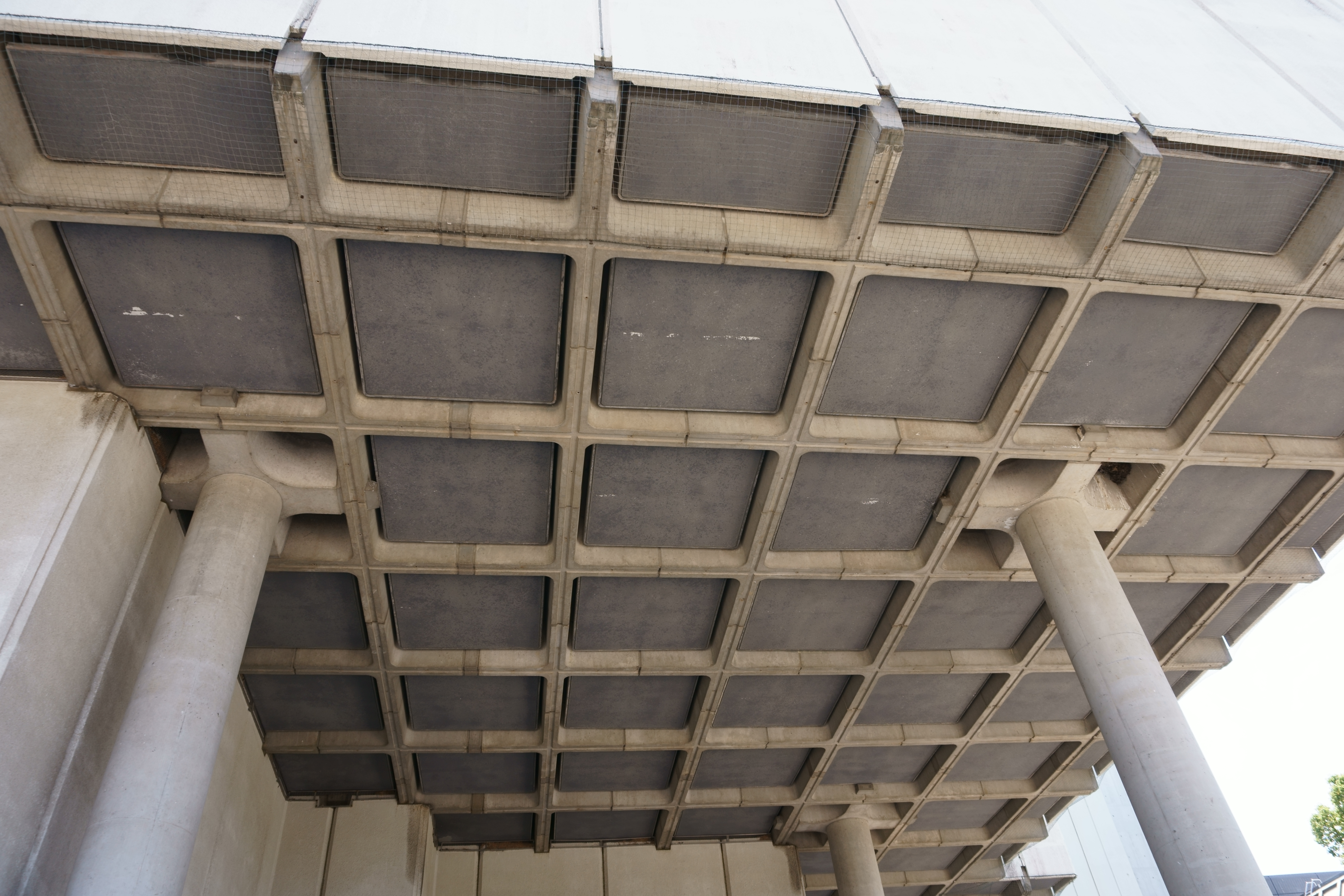 A porch over northwest entrance of Saga Prefectural Museum.